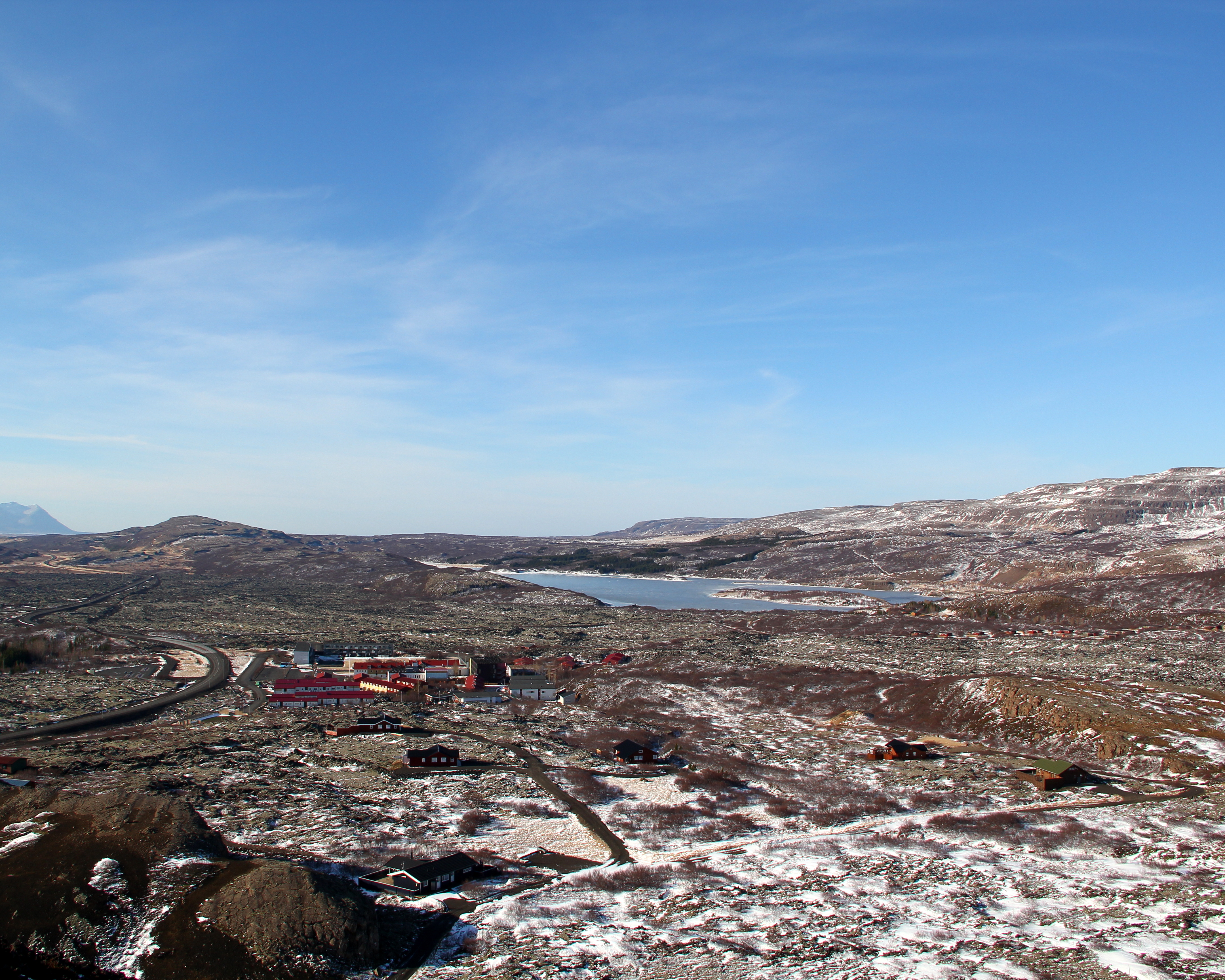 The village of Bifröst, Iceland and Bifröst University (red roofs, lower left) as seen from the southern lip of Stóra Grábrók crater. The lake Hreðavatn, southwest of the village, is above and to to the right. The Ring Road (Route 1 on the extreme left leads south toward Borgarnes.